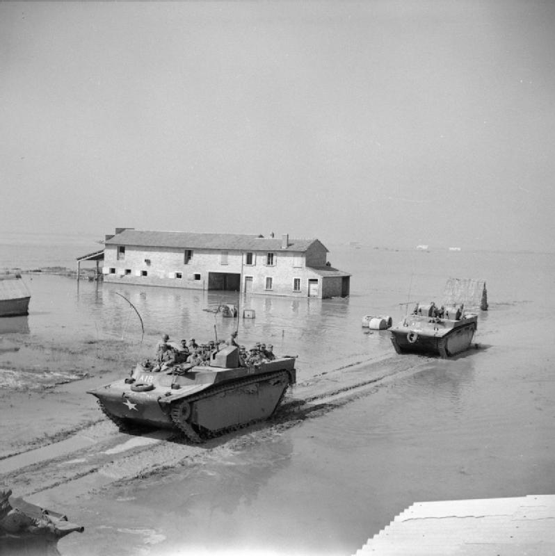 The British Army in Italy 1945 'Fantails' or Buffalo amphibians transport German prisoners through a flooded landscape south of Lake Comacchio, 11 April 1945.